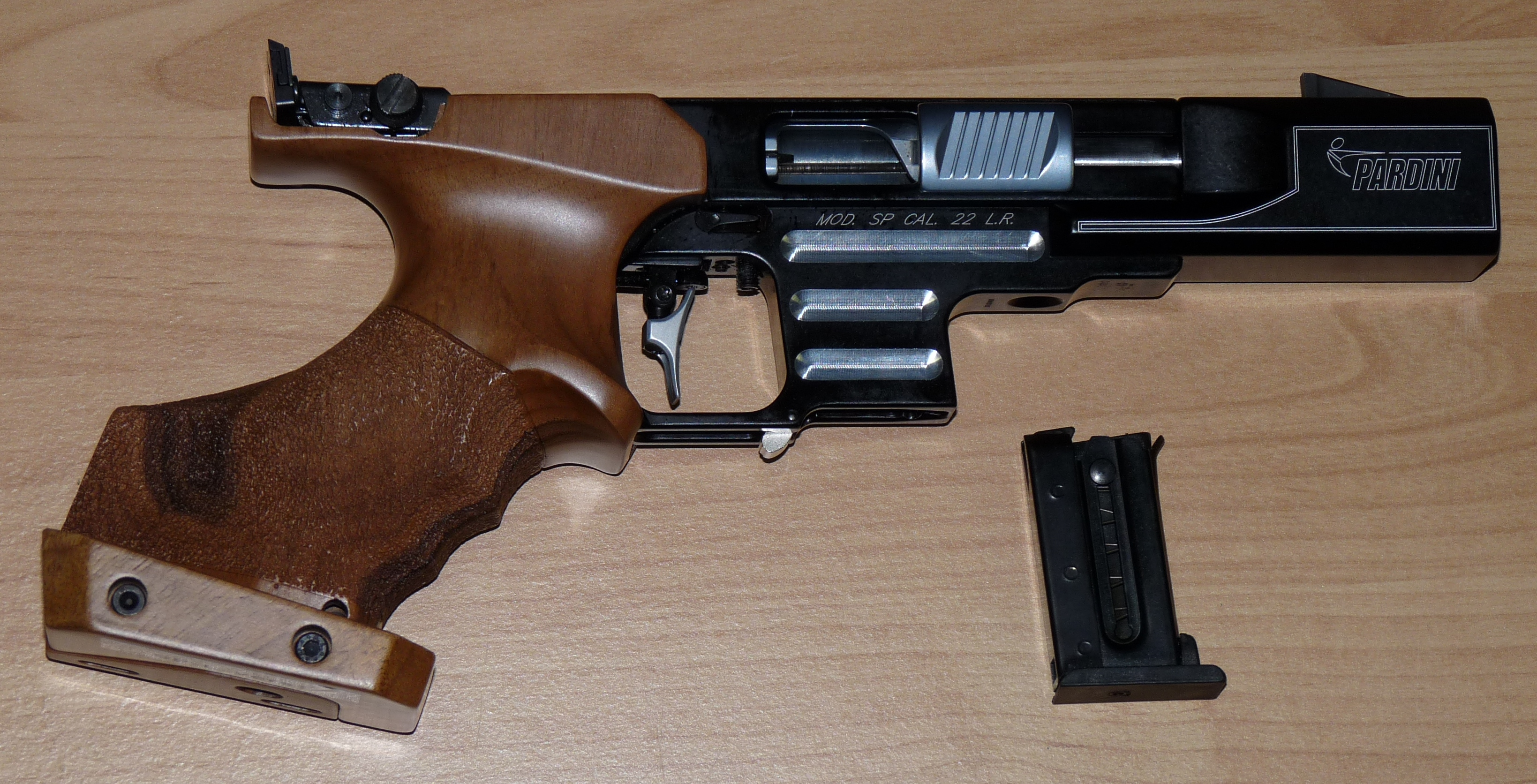 Pardini Sport Pistol Model SP - new Version (new barrel weight)